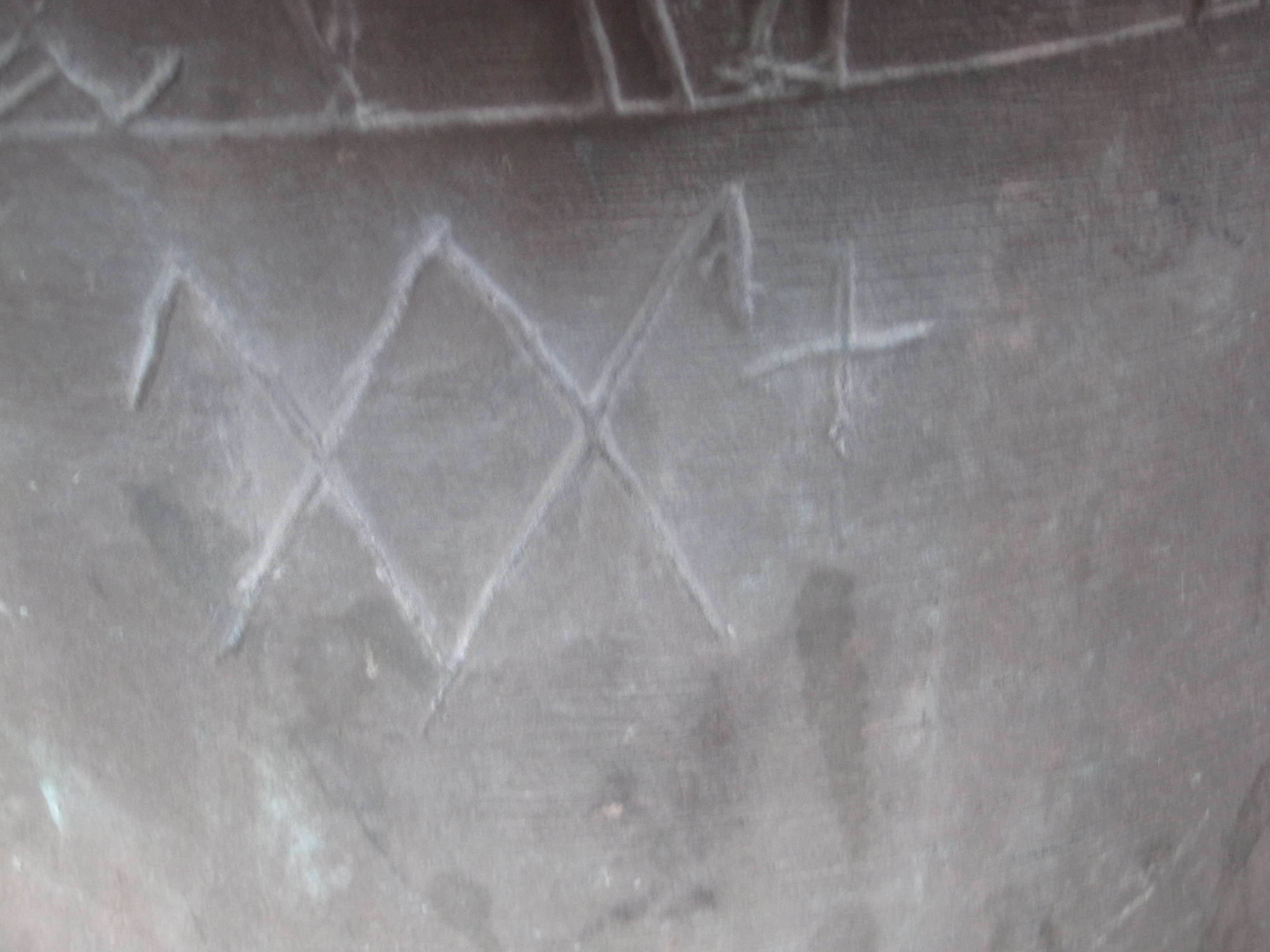 Foundry mark of Rickert de Monkehagen on the church bell in Tarnow